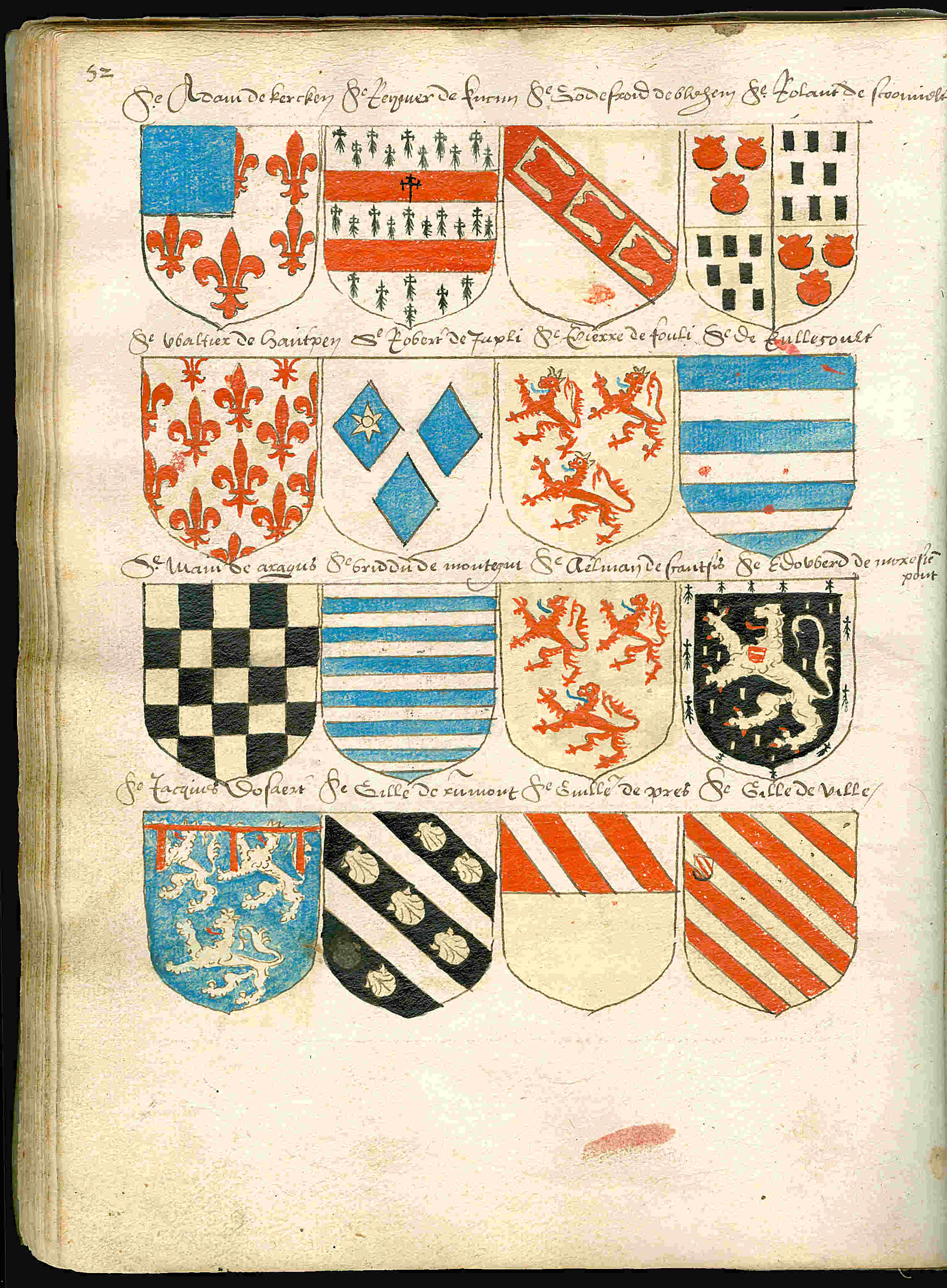 Page 52 from a copy of the Beyeren armorial / Wapenboek Beyeren from ca. 1600. The original Beyeren armorial from 1405 can be viewed at the website of the KB